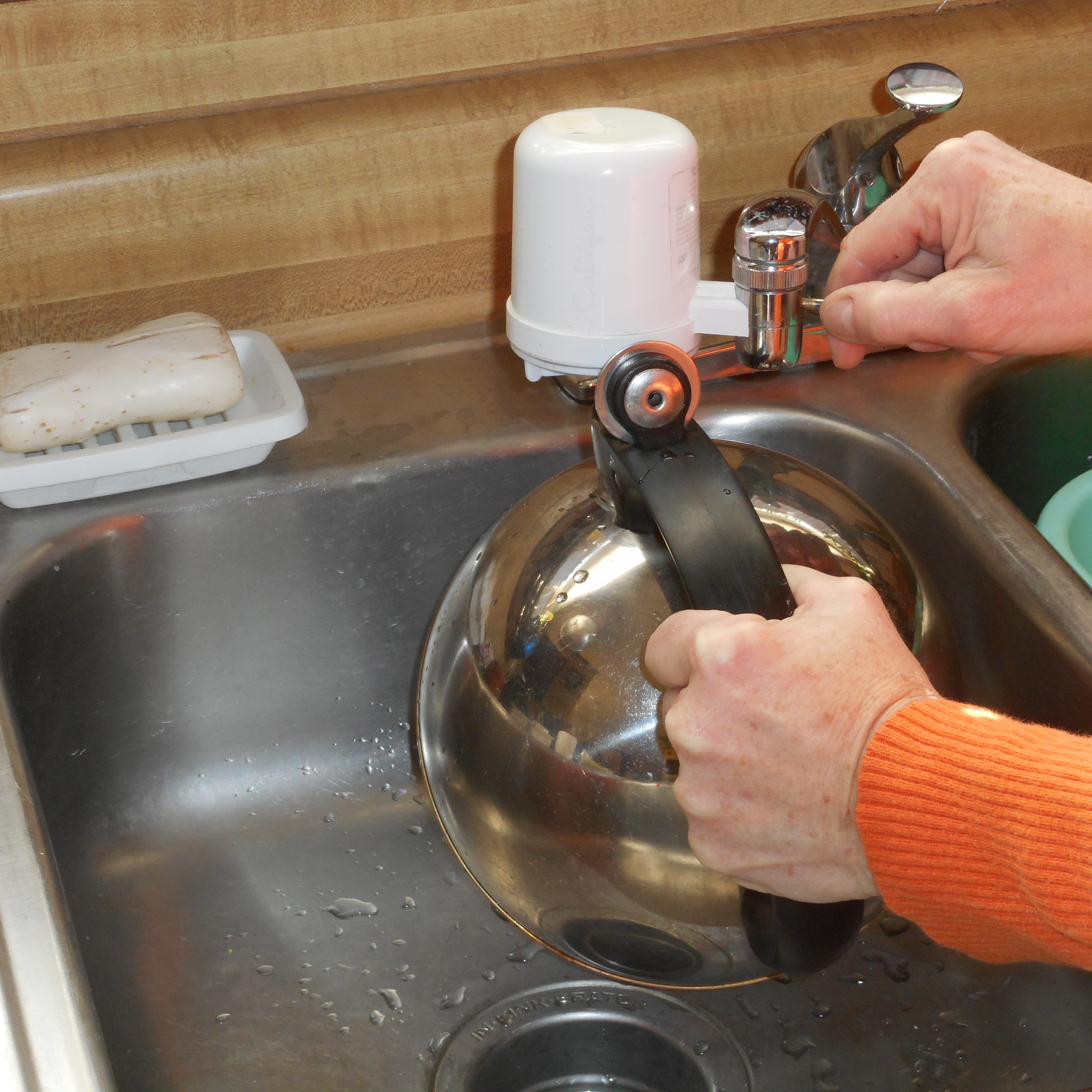 filling teakettle with filtered water from faucet